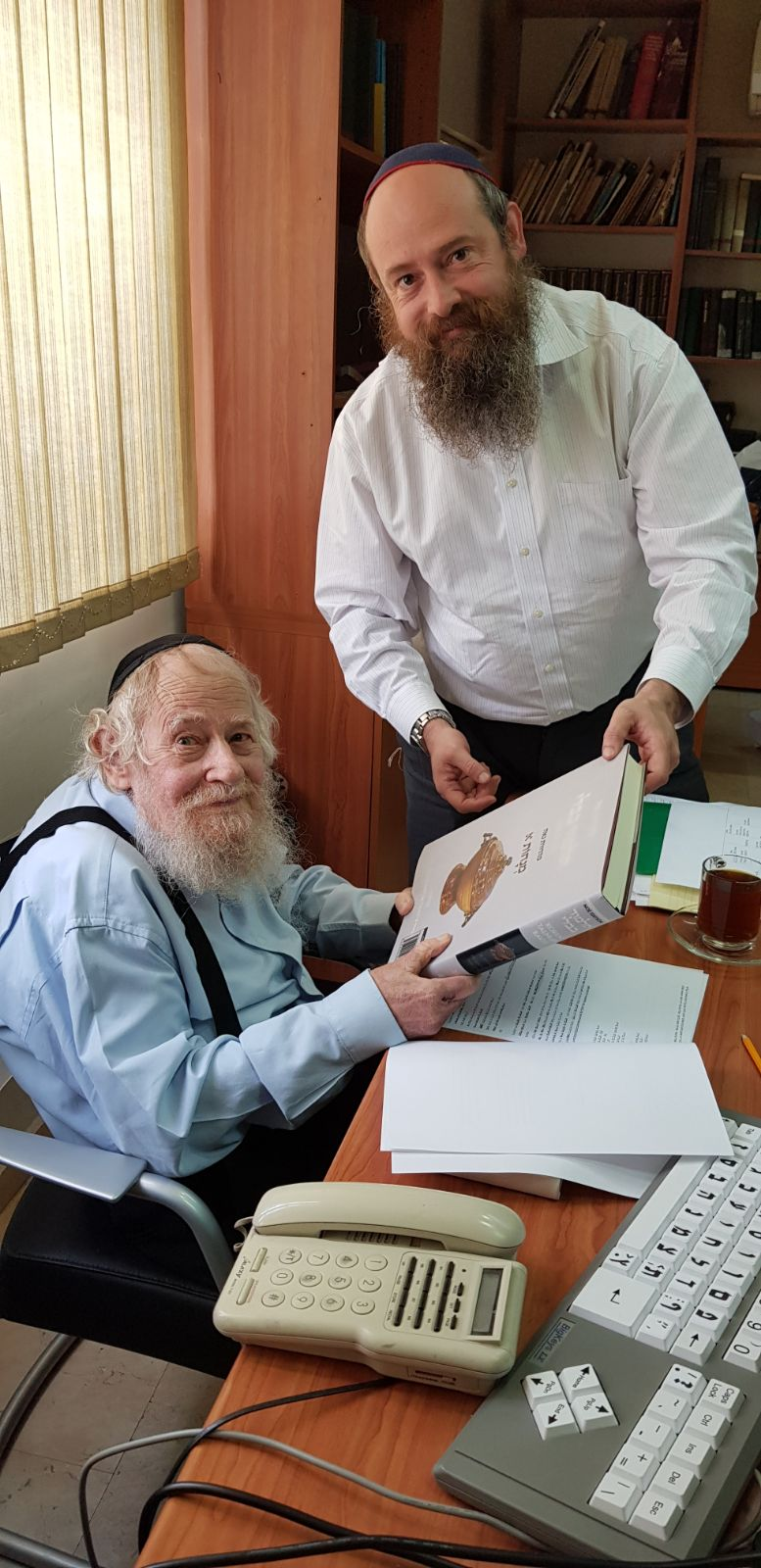 Rabbi Meni Even-Israel and his father, Rabbi Adin Even-Israel Steinsaltz, inspect a newly printed volume of the Koren Noe Talmud series, an elegant and intuitive English-language edition of the Babylonian Talmud that is shaped by Rabbi Steinsaltz’s acclaimed translation and commentary.